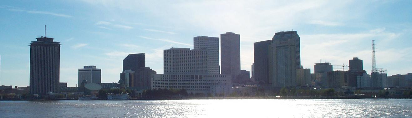 The New Orleans skyline.